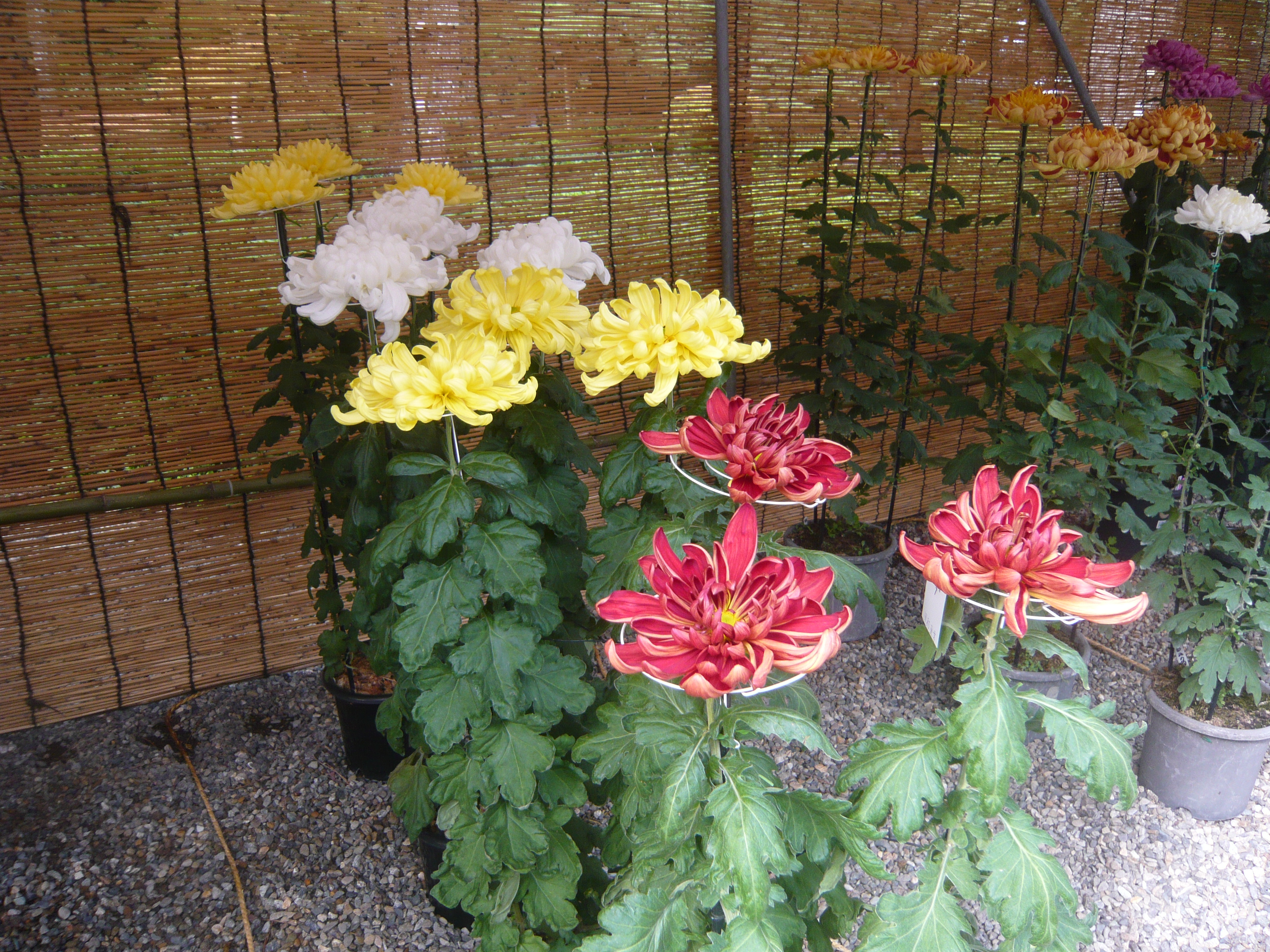 Chrysanthemum Doll and Flower Festival 菊人形・菊花展 美濃菊（岐阜公園）,Gifu,Gifu,Japan（岐阜県岐阜市）で撮影。